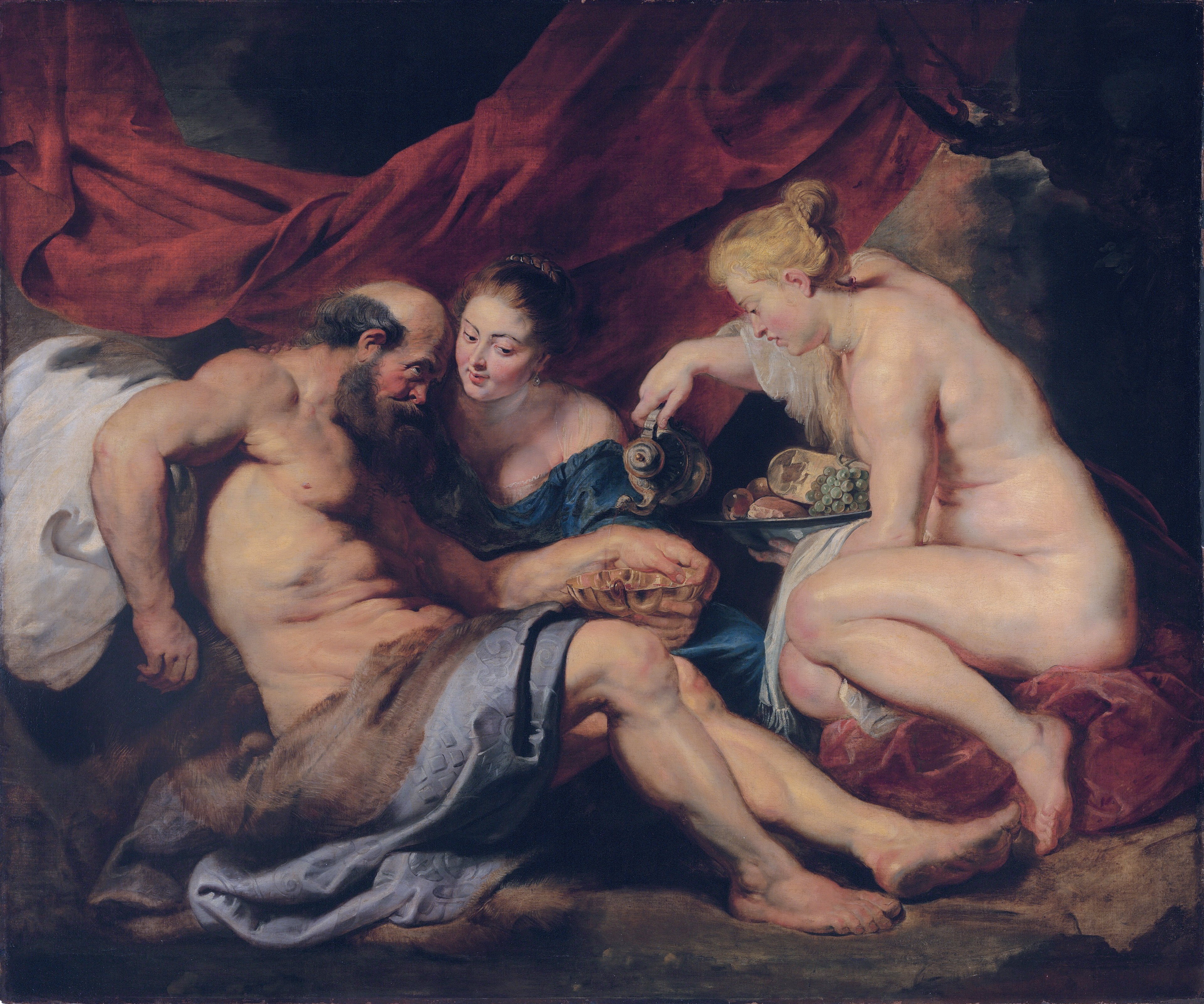 including early 18th century horizontal additions to top and bottom edges of circa 18 and 10cm. wide